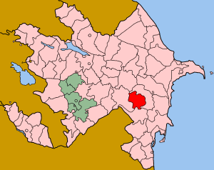 Map of Azerbaijan showing Saatly (Saatlı) rayon.